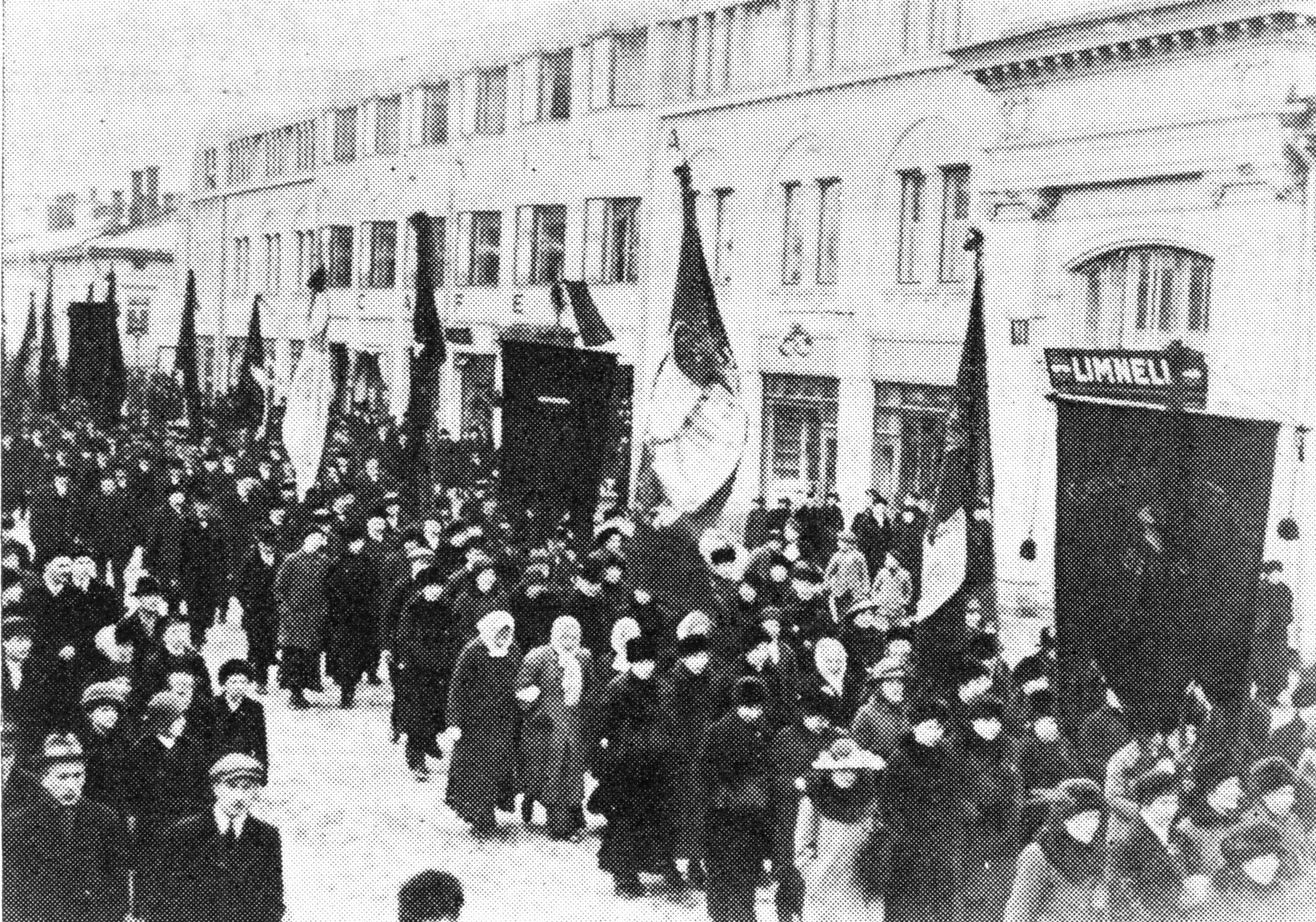 From the revolutionary celebrations in Turku, Finland, March 29, 1917. The worker's protest march proceeds along Eerikinkatu .